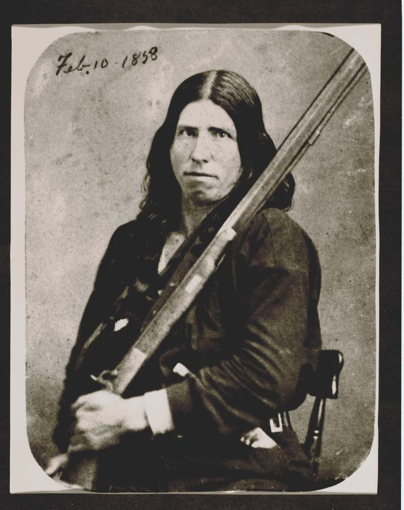 Britt's first wet plate image, taken of a trapper holding a rifle